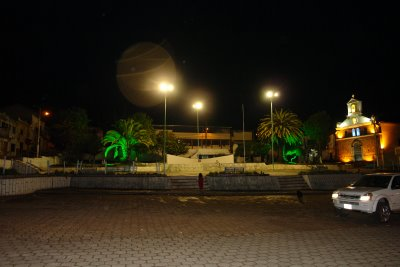 Public garden in Ilumán, in the province of Imbabura in Ecuador